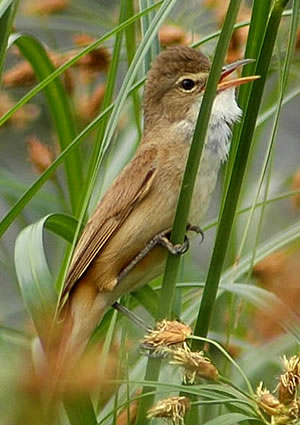 Bird, Australian Reed-Warbler, Acrocephalus australis